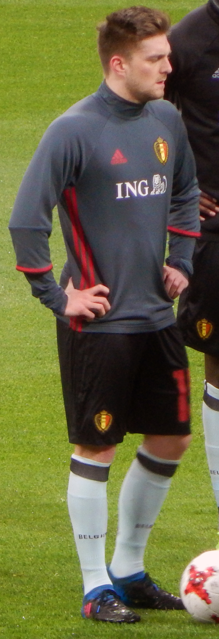 This photo was taken on March 28, 2017 during the exhibition game between Russia and Belgium. That game was held in Adler (City of Sochi) at the Fisht stadium.